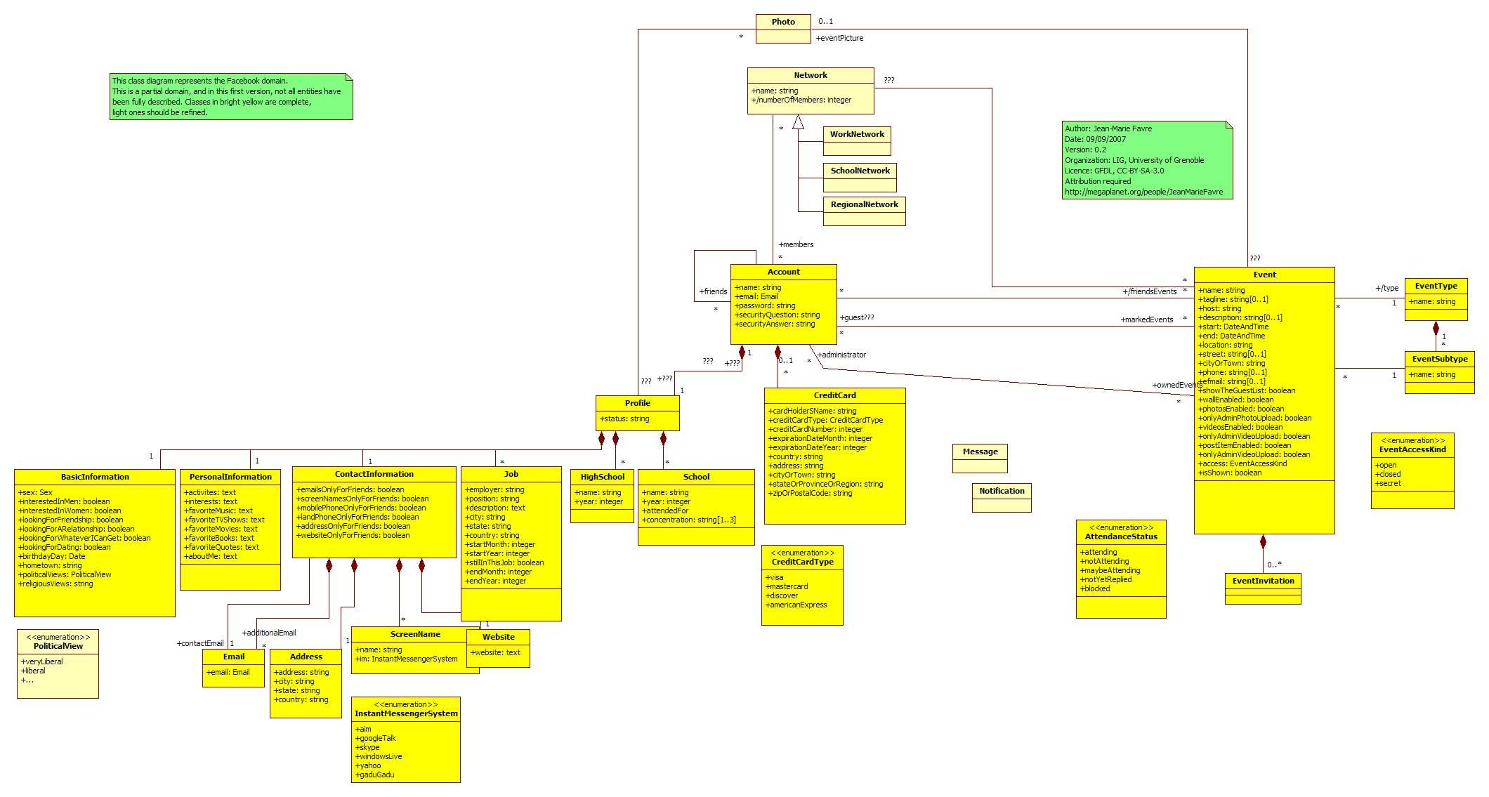 This UML diagram describes the domain of Facebook social networking system. It allows to grasp easily which concepts and relations are used and stored by this system. Such a diagram is a (meta)model of Facebook.